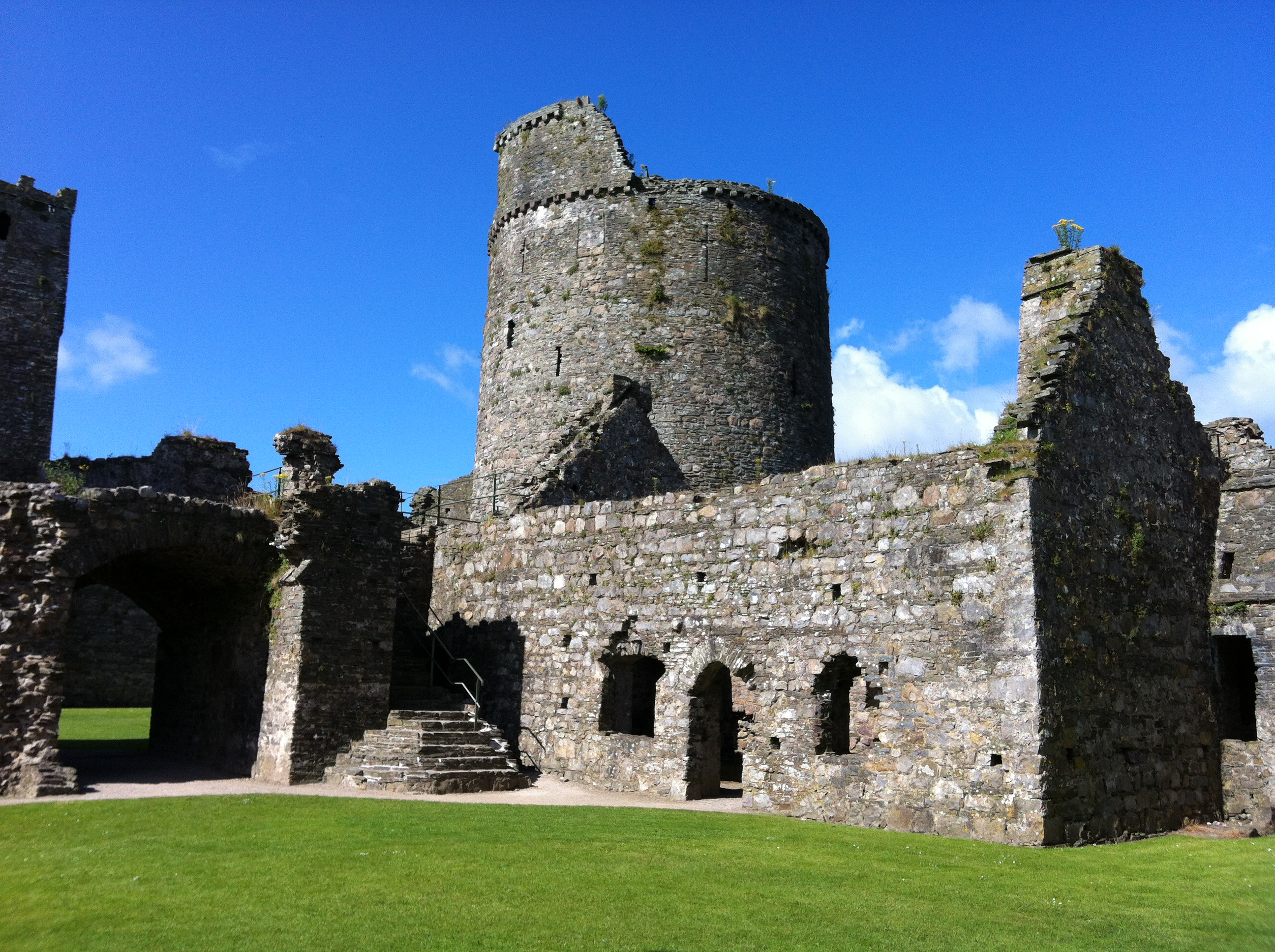 Kitchen House in the inner ward, built around 1300.